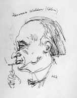 A pen and ink sketch of Herwarth Walden by the Bohemian painter and printmaker Emil Orlik. Not dated. According to the Jewish Museum in Prague, this drawing was made at the Café des Westens in Berlin.